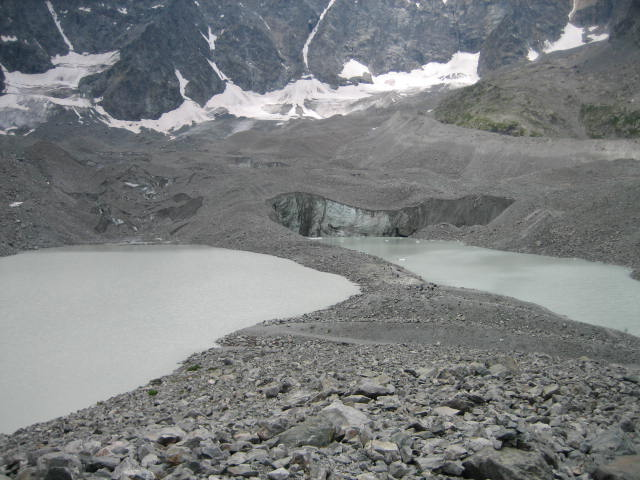 Moraine, glacier and lake of Arsine, Écrins National Parc, French Alps